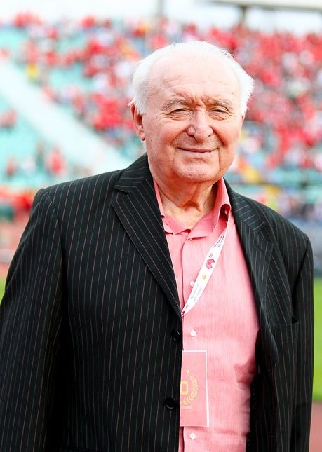 Petar Petrov Zhekov (born 10 October 1944) is a former Bulgarian football player, who won the silver medal at the 1968 Summer Olympics.